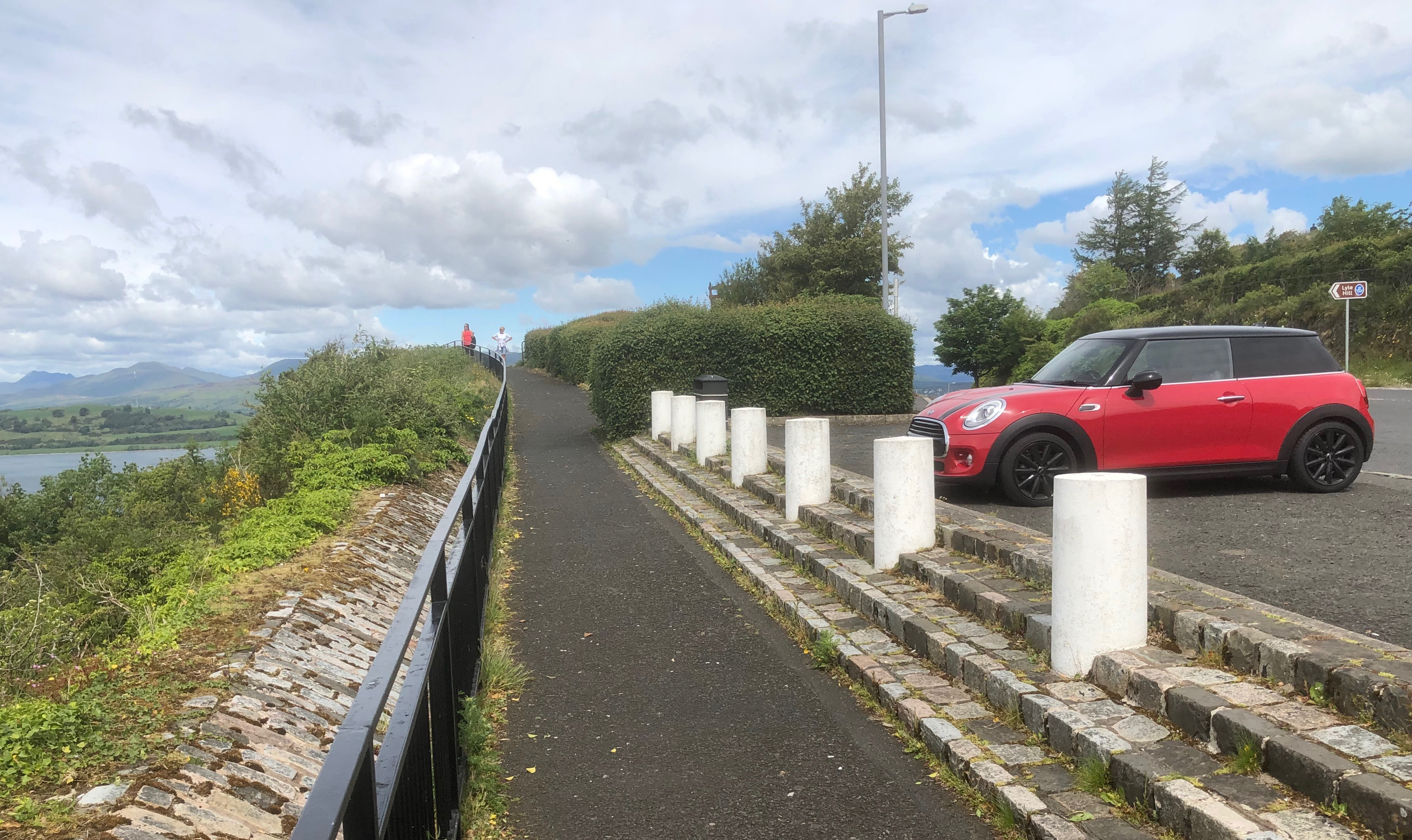 Car park at Lyle Hill scenic viewpoint, Greenock. The footpath around the top of the crags set four steps down from the car park, so that car occupants can have an uninterrupted view over the railing protecting the path. The viewpoint sign on the other side of Lyle Road is at the high point of the road, adjacent to steps leading up to Craigs Top.